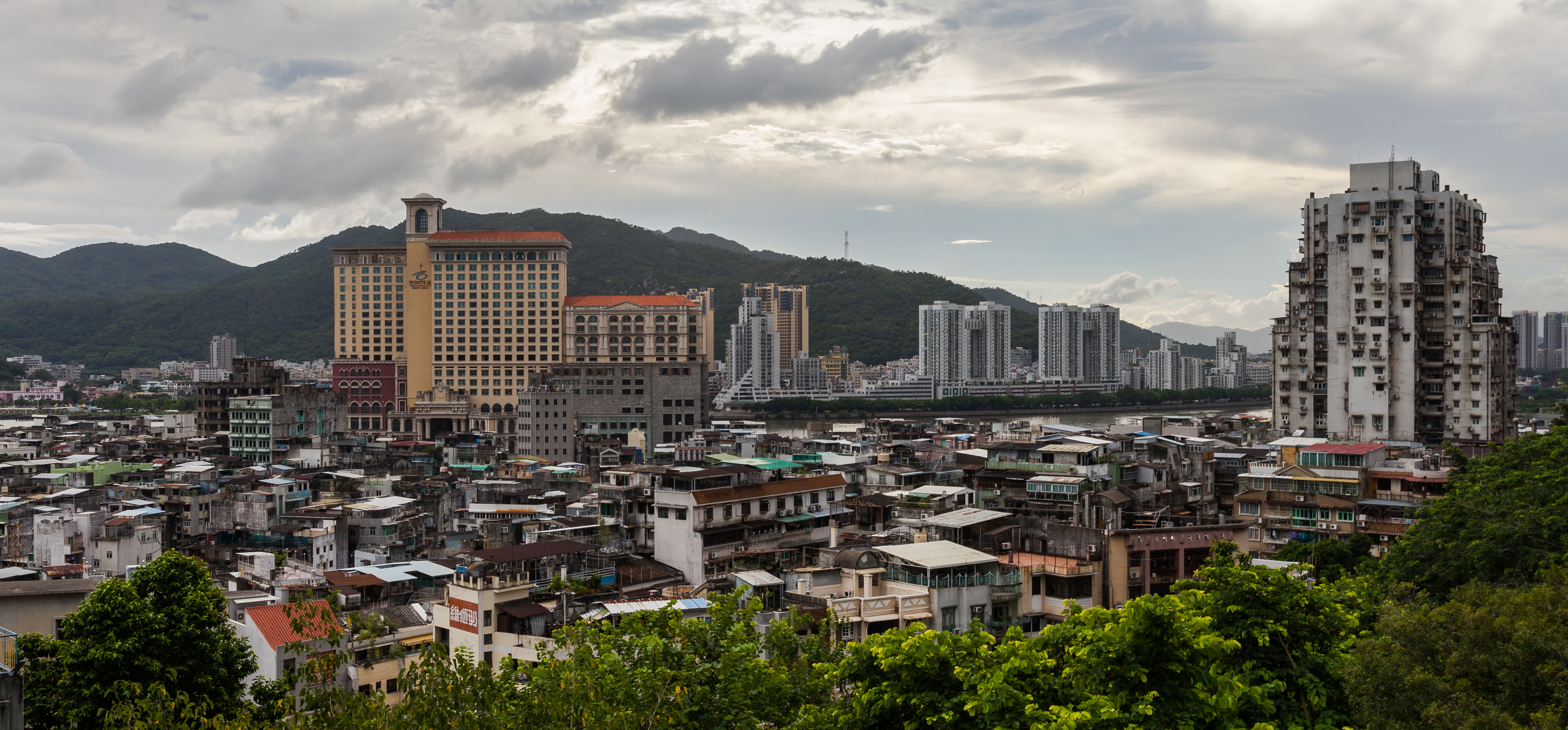 View of Macau